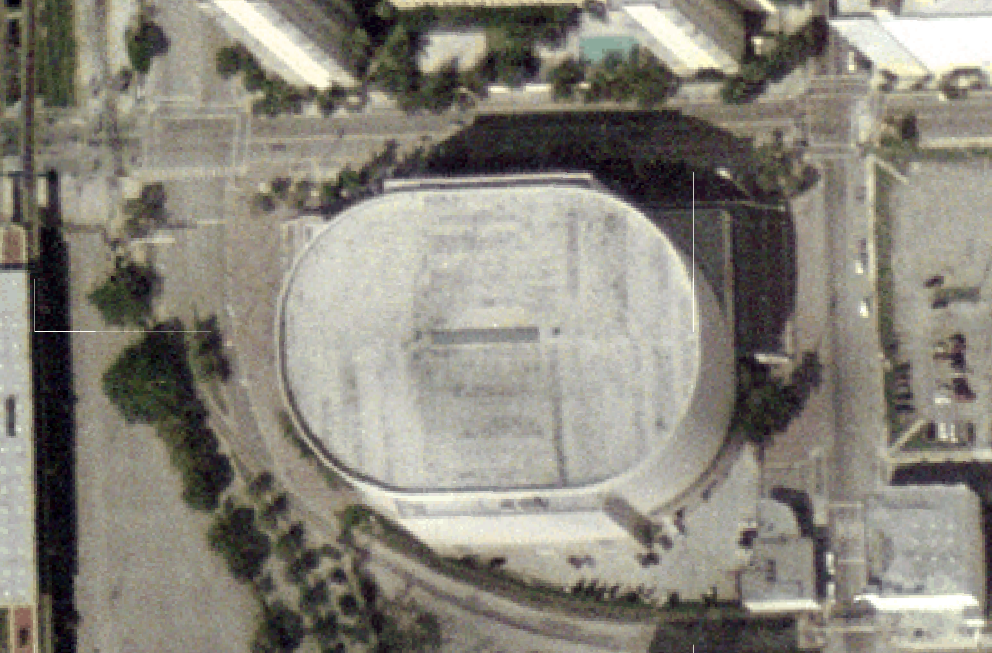 Miami Arena. Satellite view.